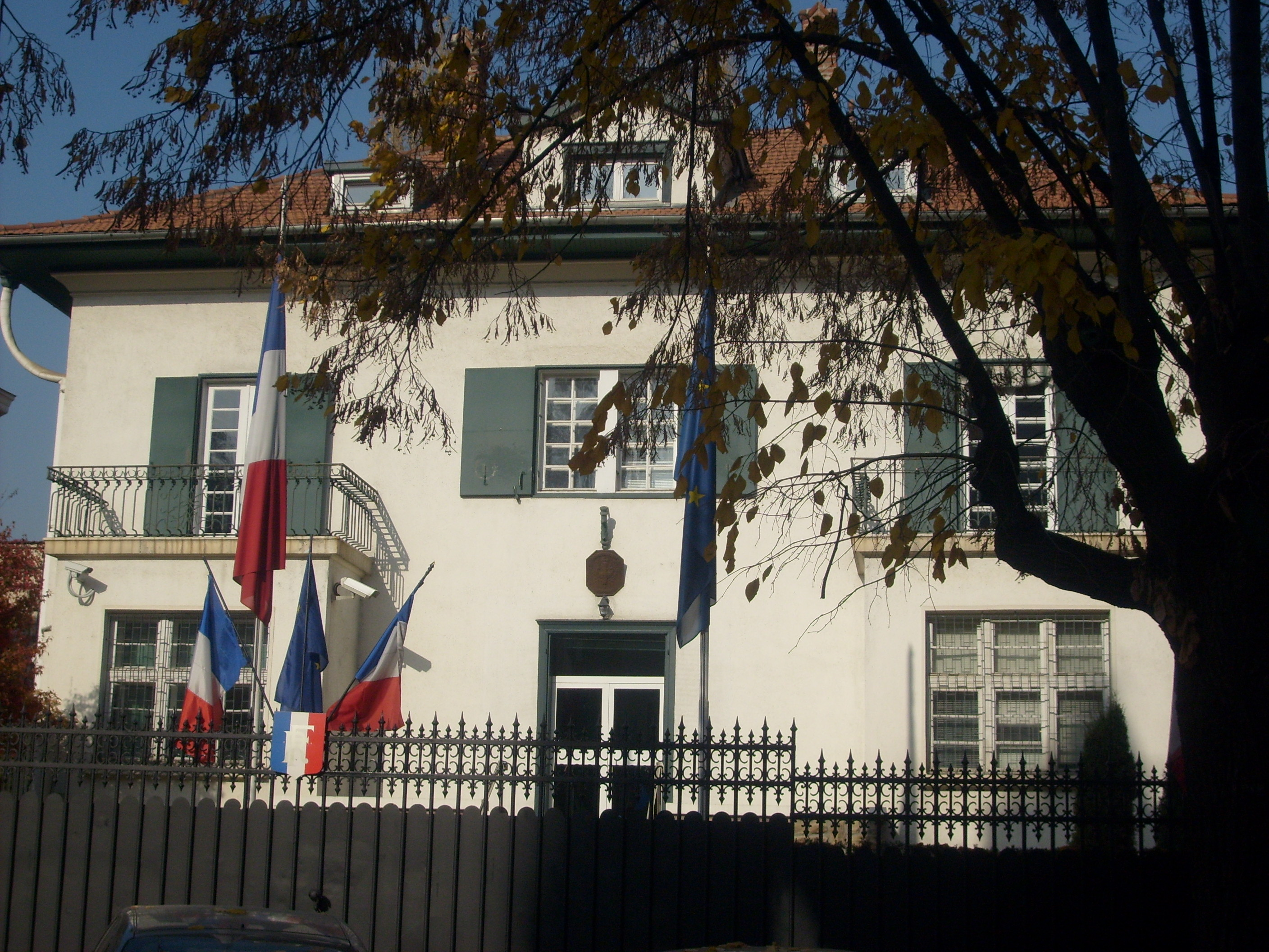 Sofia, Bulgaria French embassy